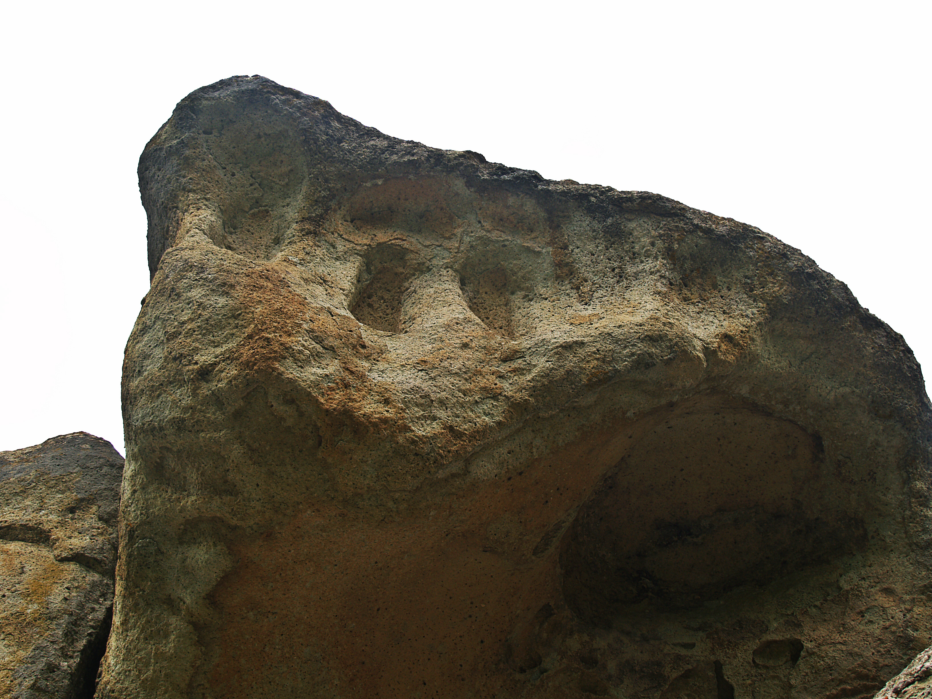 Kovil_niches_East_Rhodopes_BG